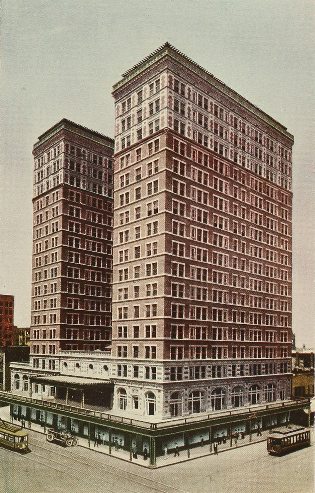 The Rice Hotel The old city hall of Houston. From "Houston: Where Seventeen Railroads Meet the Sea" Page 23/40 "The Rice Hotel Is 18 Stories High, 600 Rooms, Cost $3,500,000. Occupies the Same Site as the First Capitol Building of the Republic of Texas."